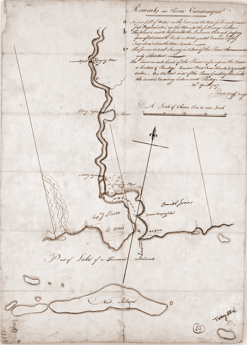 Surveryor's map of the Gananoque, Ontario region, showing private allotments and "Indian burial places".